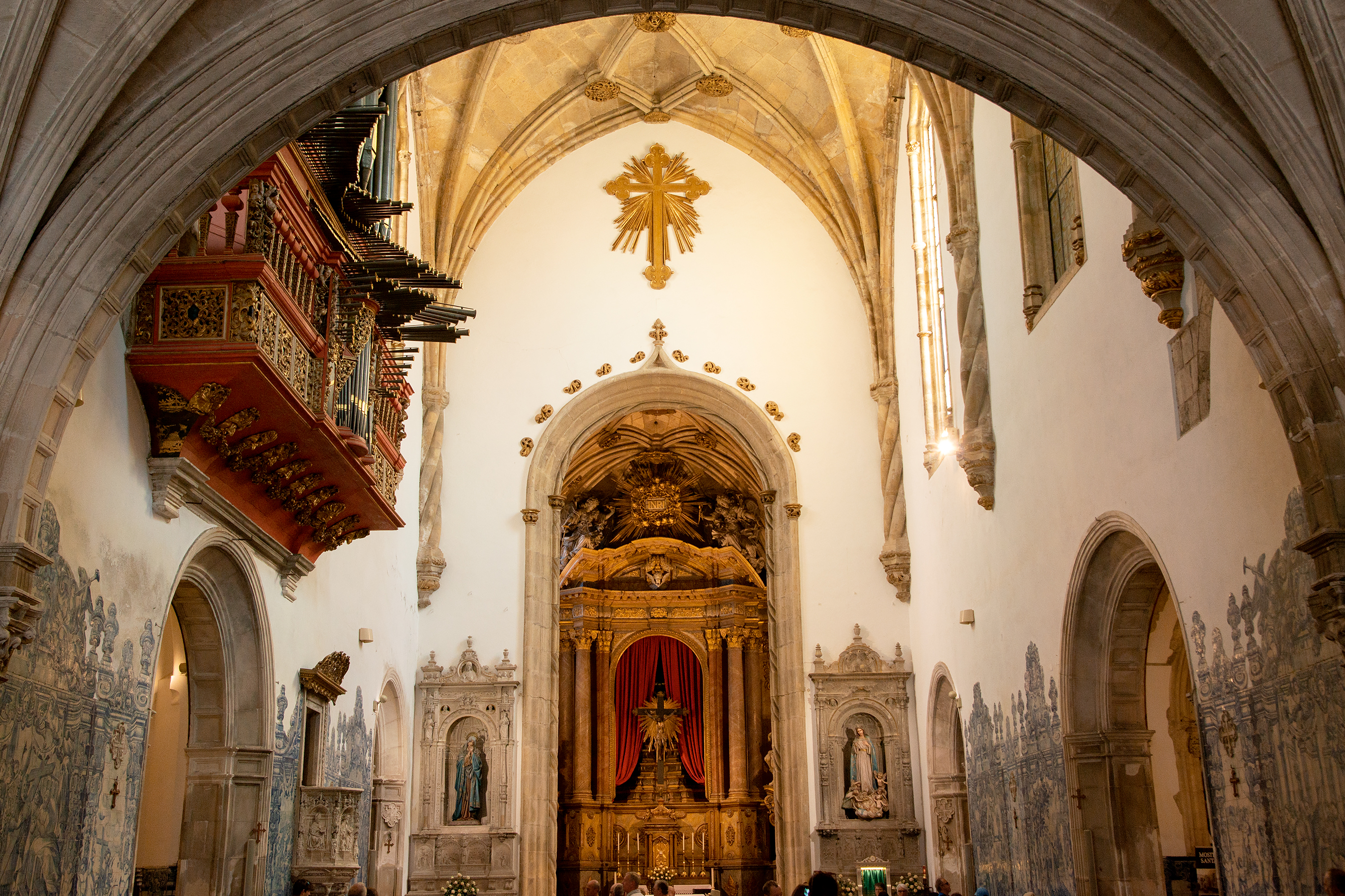 Church of Saint Bartolomew, Igreja São Bartolomeu, Coimbra